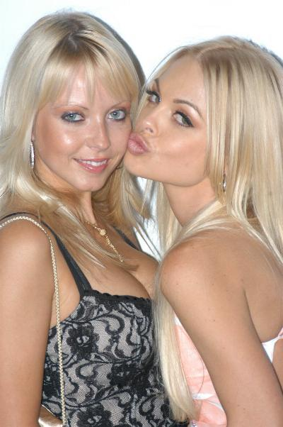 Jana Cova and Jesse Jane at Digital Playground party for movie Island Fever 4, September 17 2006